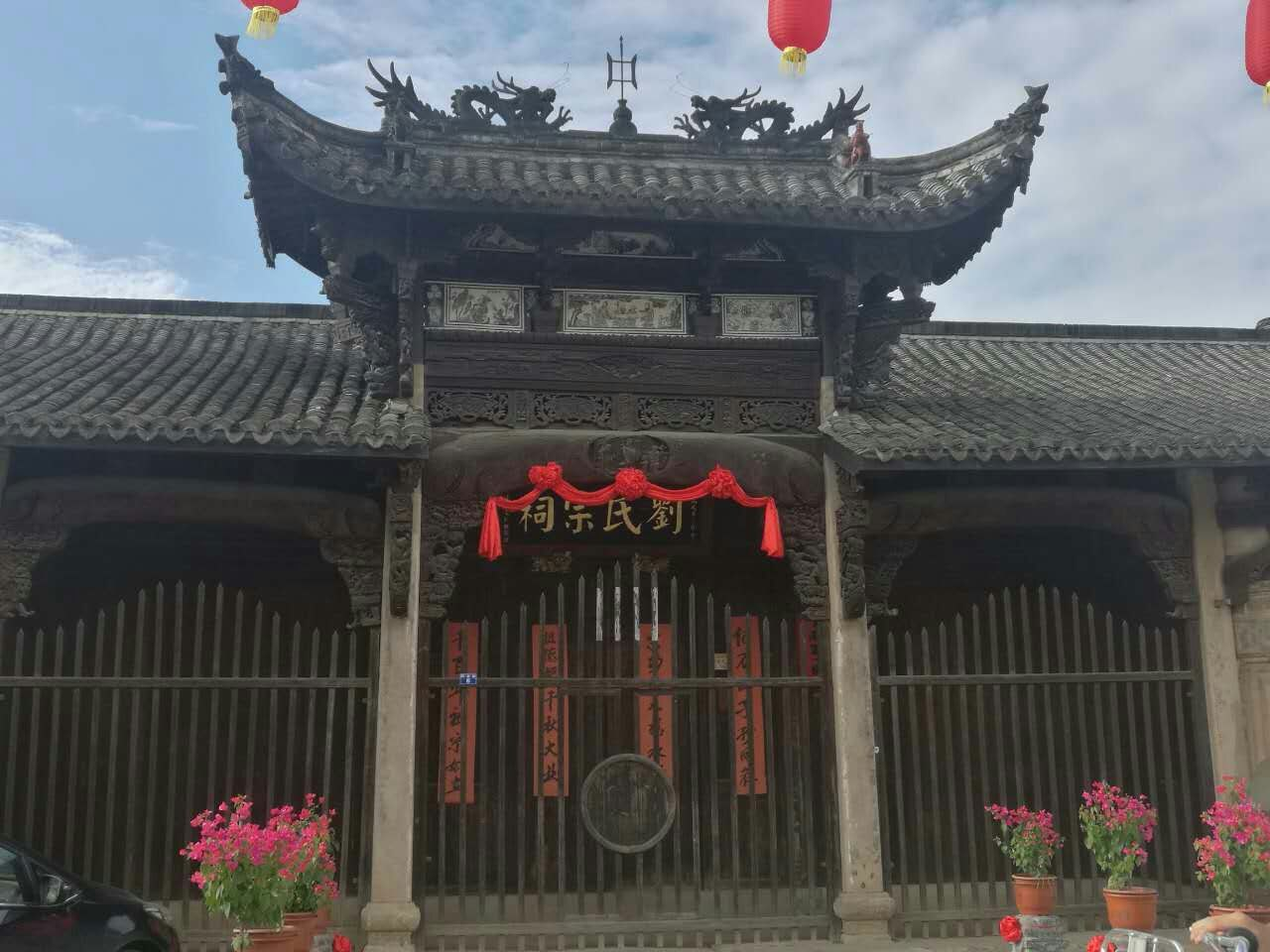 Photo of a historical building in Shangjing